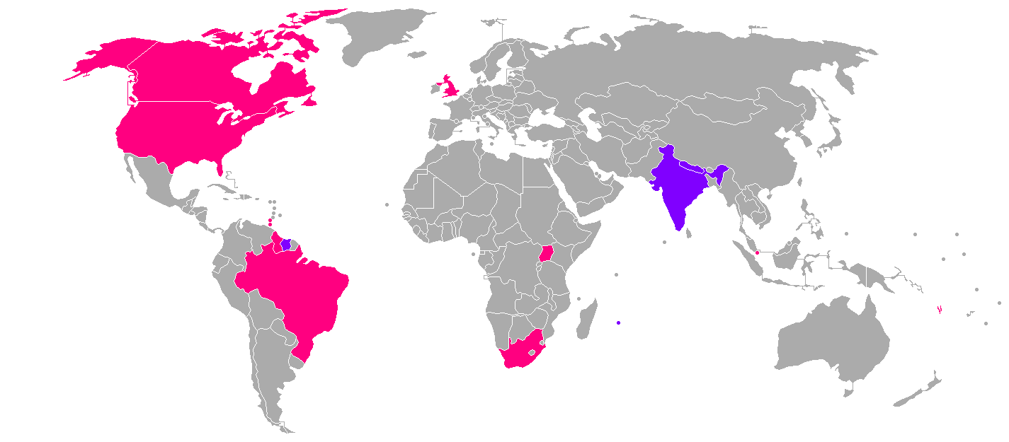 Countries where Bhojpuri is spoken.